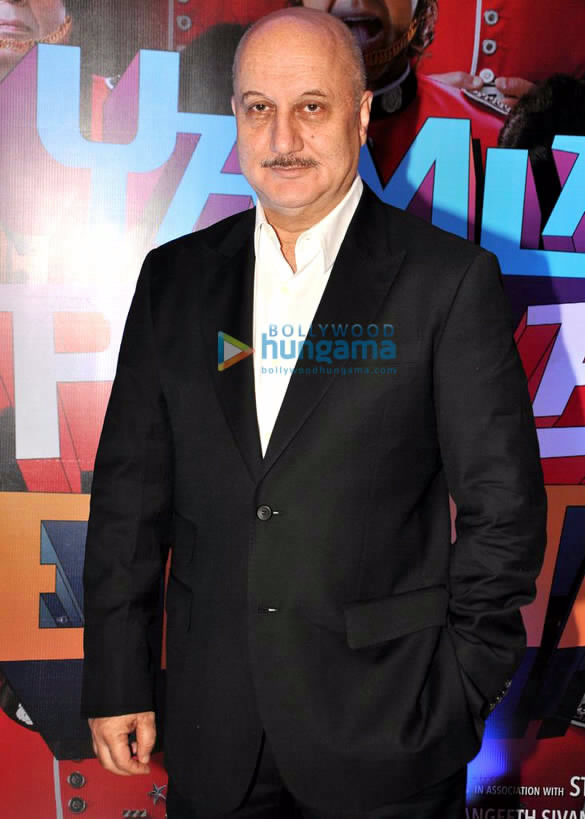 Anupam Kher at Audio release of 'Yamla Pagla Deewana 2'